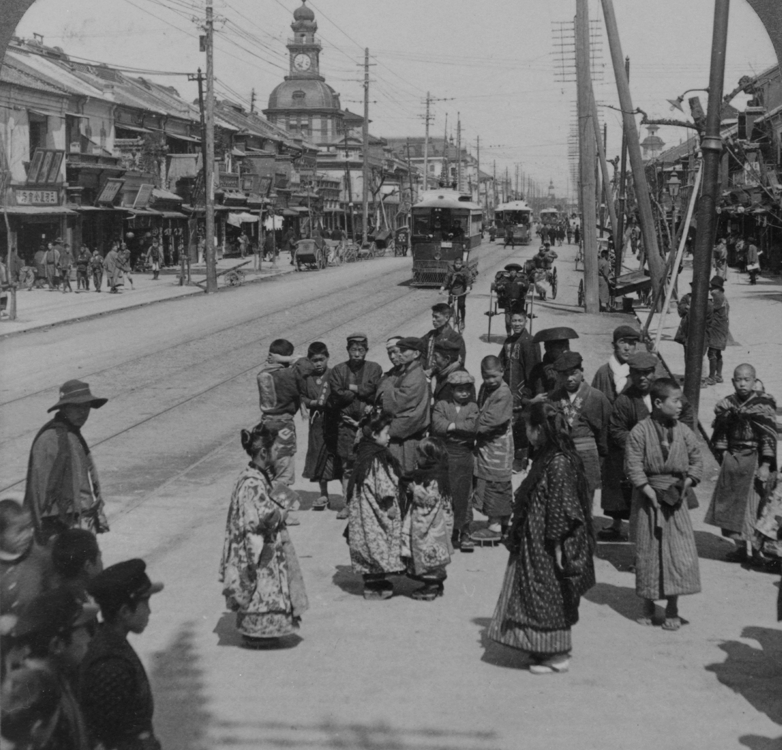 The Ginza (looking north) the most important thoroughfare in Tokyo, Japan